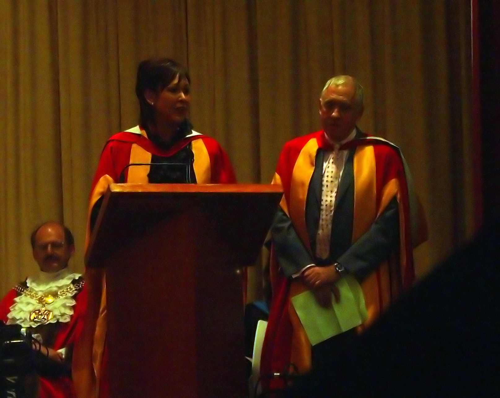 Christa Ackroyd and Harry Gration receiving honorary degrees at the University of Bradford on the 17th July 2008.